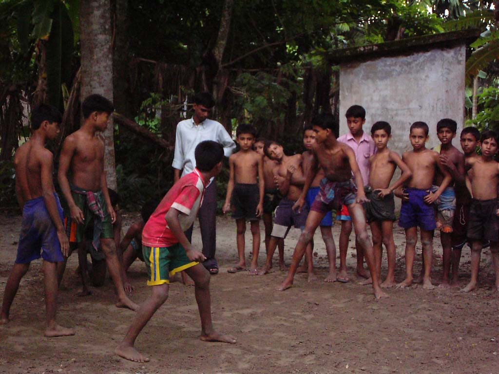 Kabadi game, Bangladesh